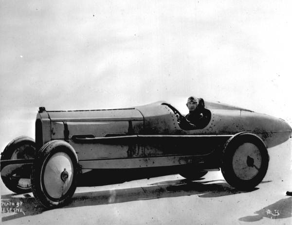 Ralph DePalma and his Packard V-12 - Daytona Beach, Florida During the week of February 12, 1919, DePalma set a new record of 149.875 mph for the Daytona Measured Mile.